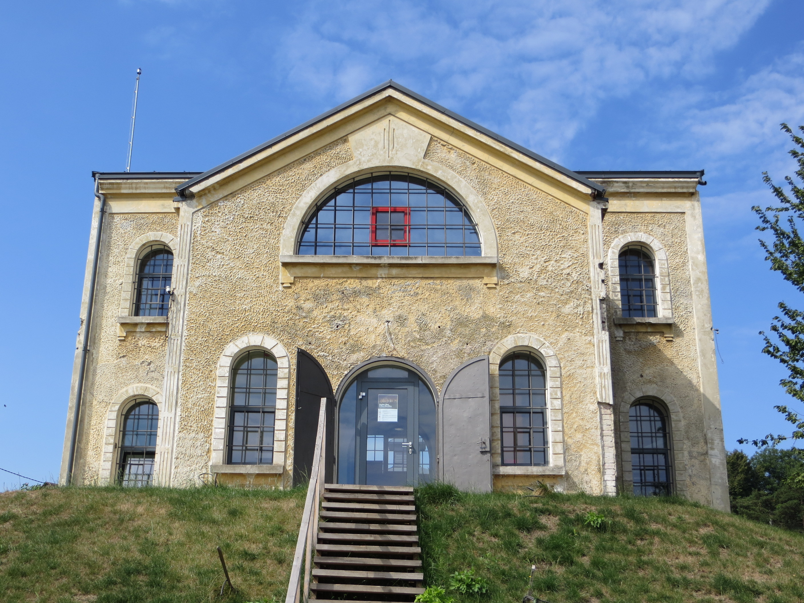 The Water Plant in Suceava.